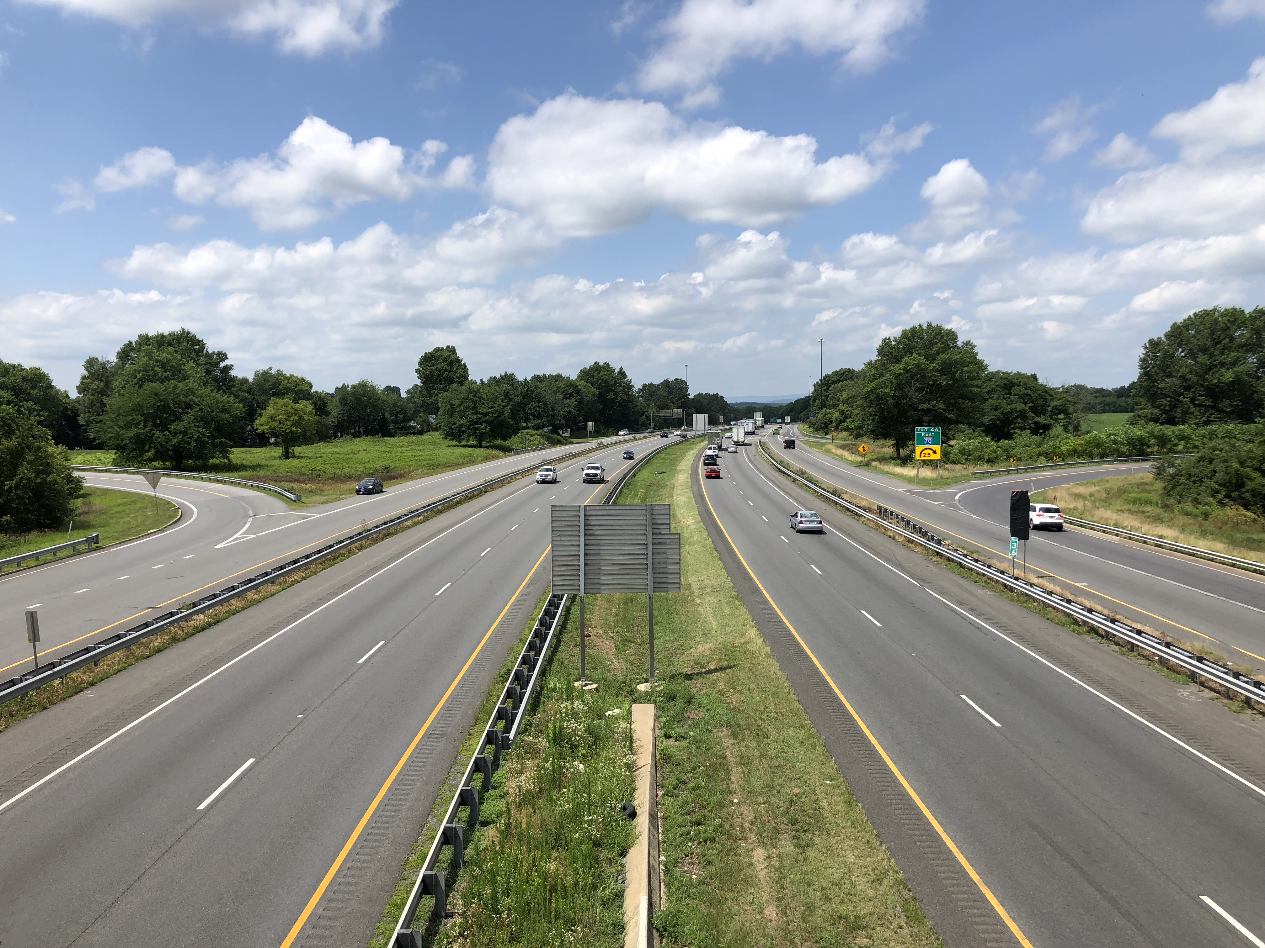 View south along Interstate 81 from the overpass for Interstate 70 in Halfway, Washington County, Maryland